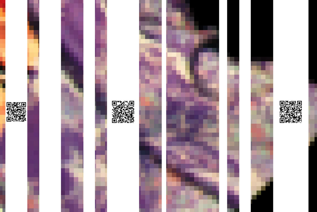 Low resolution image detail of Still (Mirror Edit), 2006/2010, digital C-Print by Fabrice de Nola.